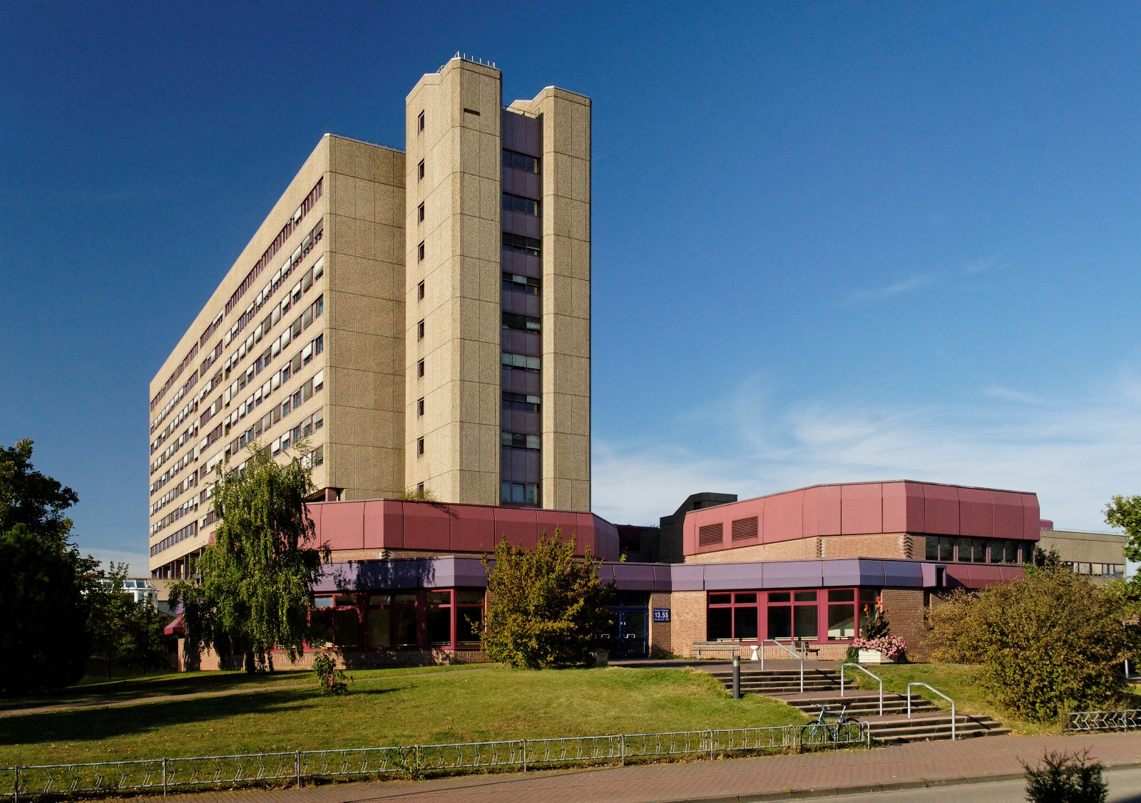 MNR-Klinik in the university hospital in Düsseldorf-Bilk, Germany